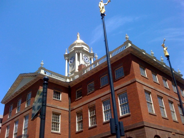 Old State House, Hartford, CT